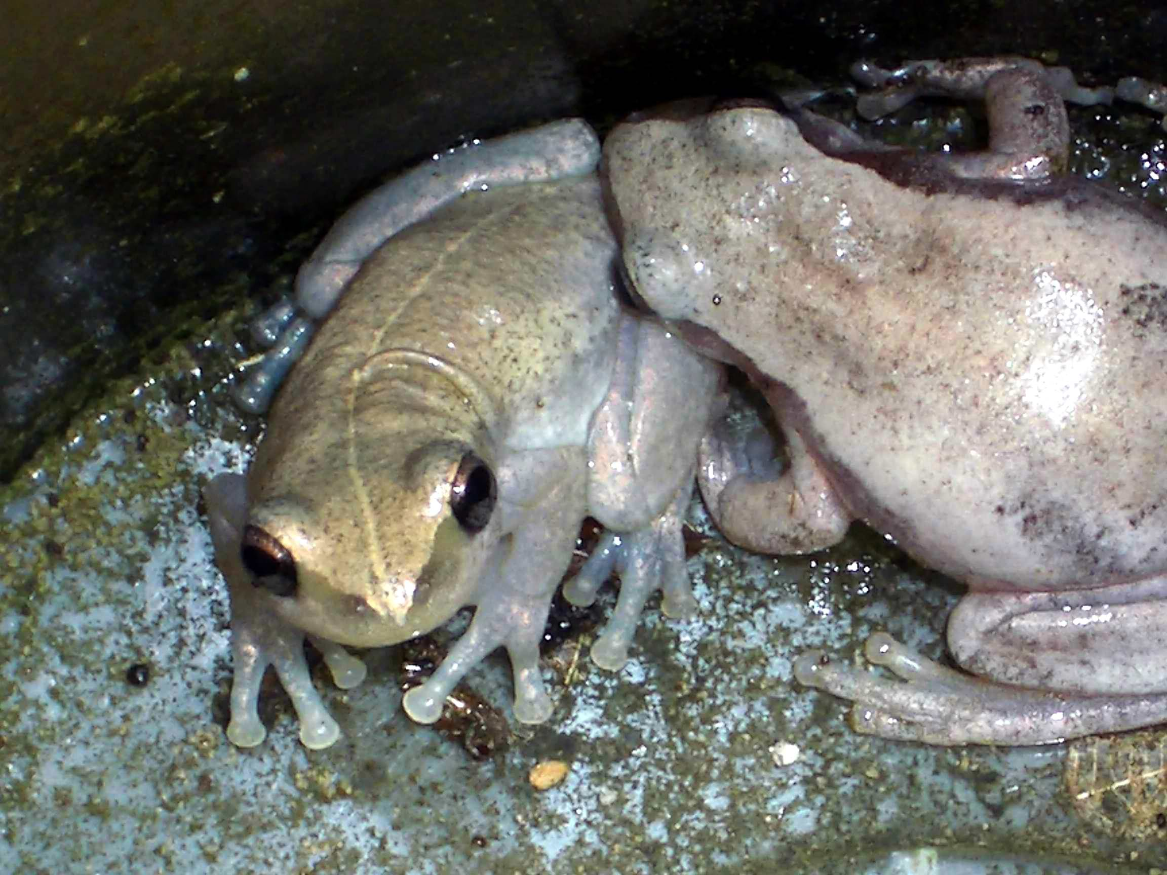 I took this photo myself of the frogs in a rain gauge in my garden near Cooktown, Queensland, in 2006. John E. Hill 03:08, 20 November 2006 (UTC)